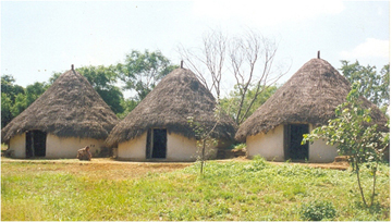 Rabari dwelling desplayed at IGRMS in Desert Village Open air exhibition